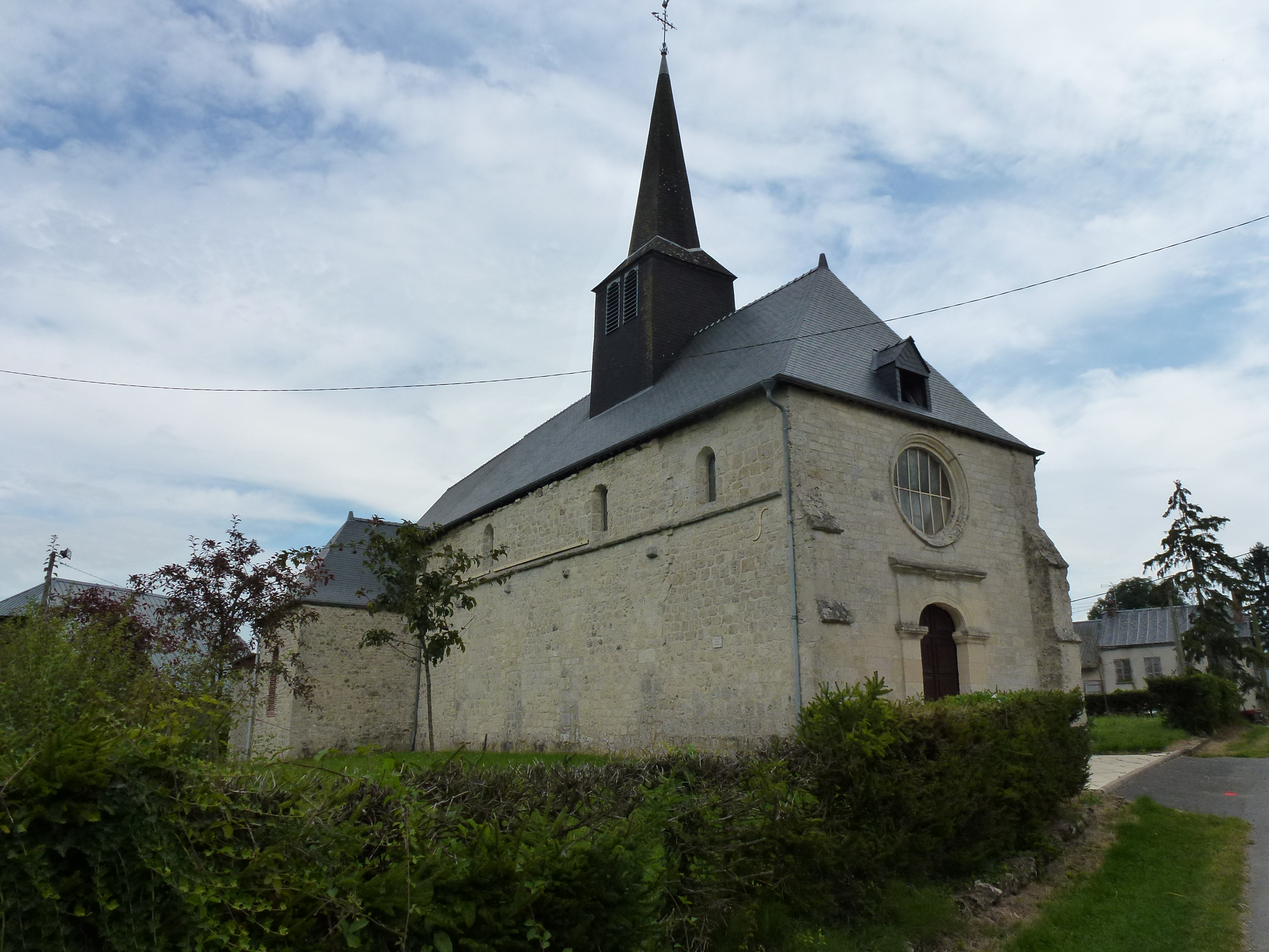 Givron (Ardennes) église Saint-Nicolas